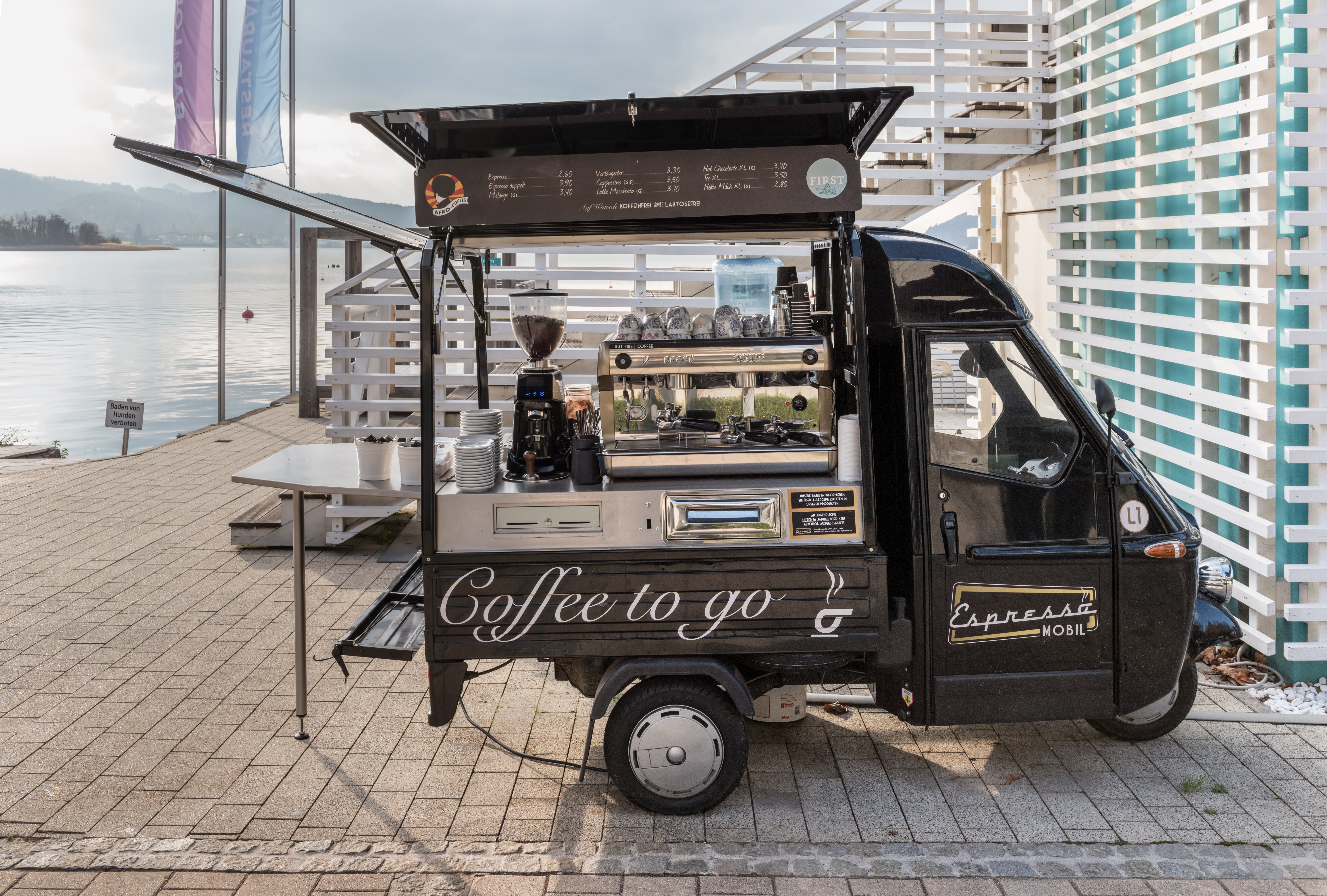 Espresso mobile at My Lake`s hotel on Johannes-Brahms-Promenade, municipality Pörtschach am Wörther See, district Klagenfurt Land, Carinthia, Austria, EU